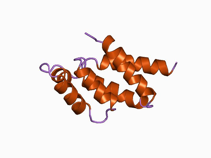 Cartoon representation of the molecular structure of protein registered with 1abv code.